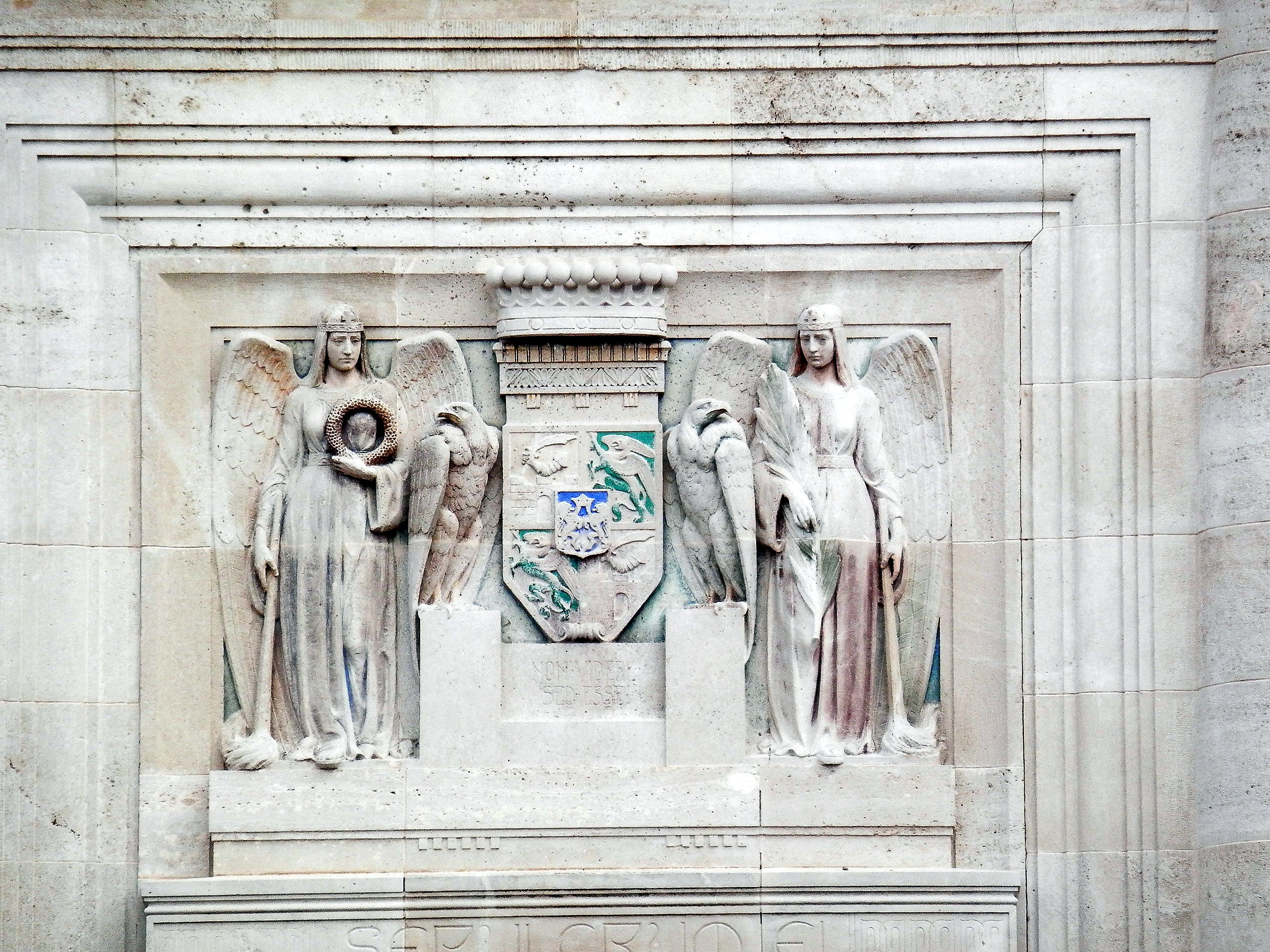 Detail.Mauseleum of the Andrássy Hungarian noble family in Krasznahorka (Krasna Hǒrka)